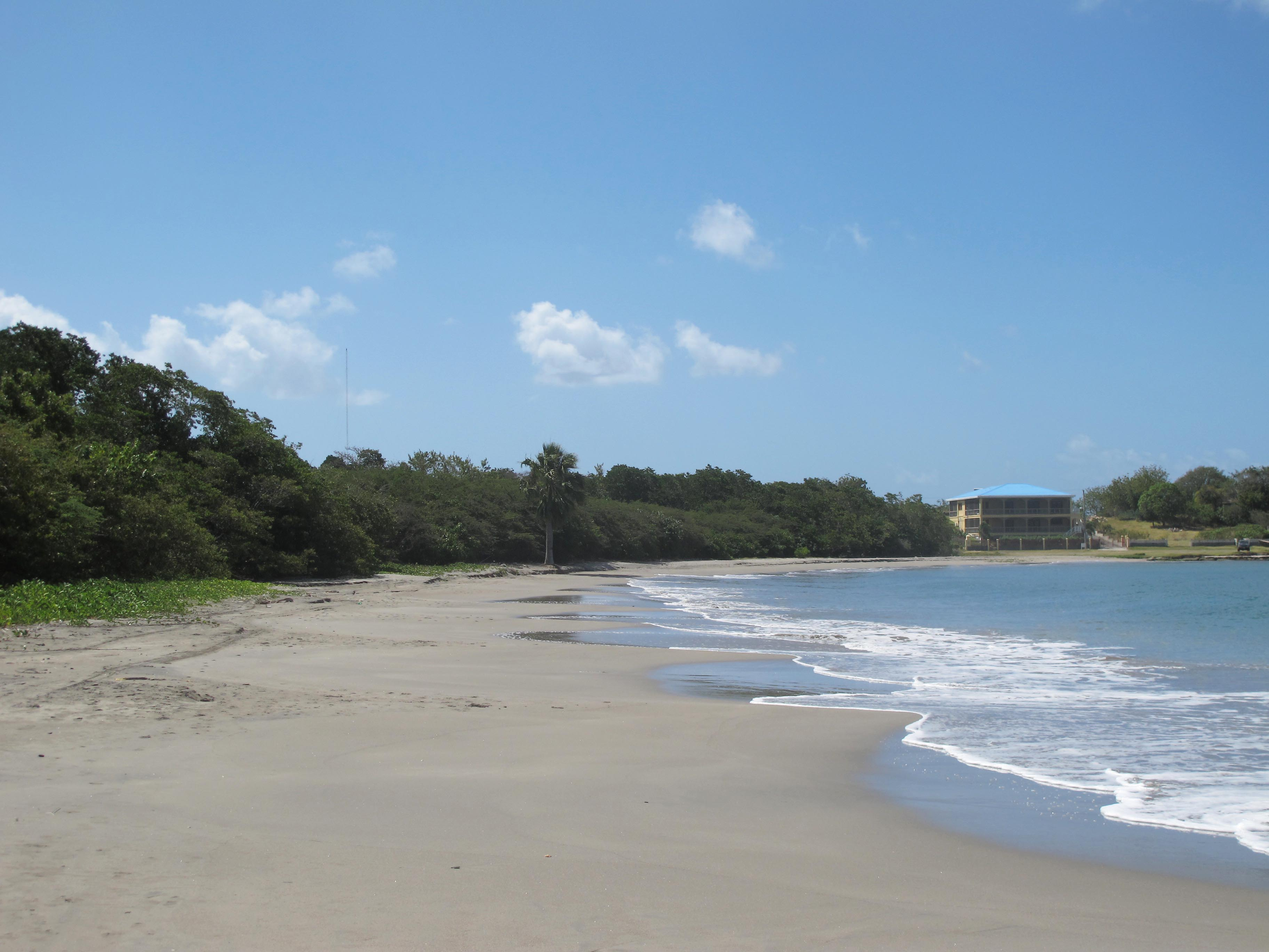 A view looking south along Gallows Bay on the island of Nevis, with the Boggs (a marshland area) visible on the left.